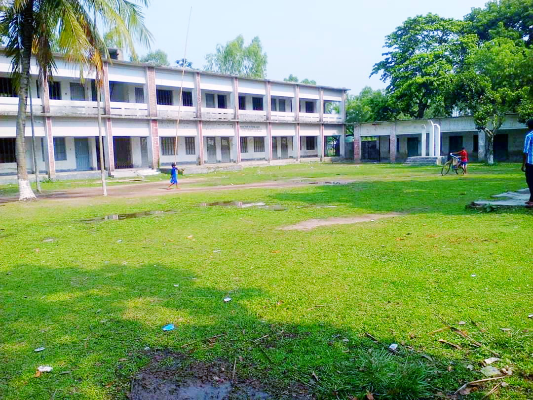 Ashraf Zindani High School